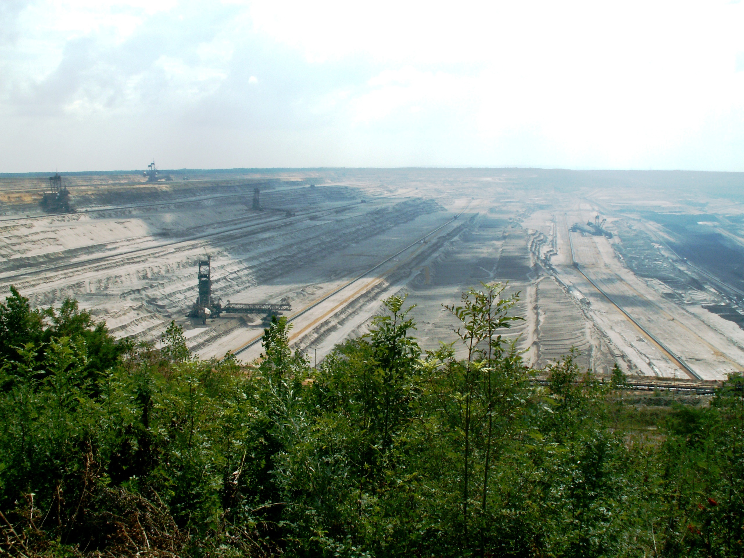 Hambach Surface Mine near by Cologne, Germany, seen from Elsdorf-Angelsdorf viewpoint